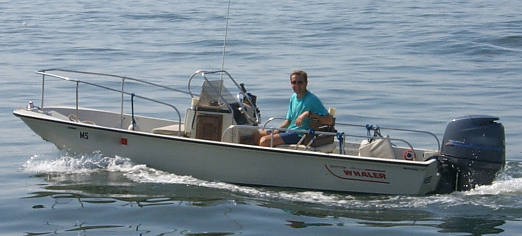 Boston Whaler Montauk outward bound in Boston Harbor. 4 July 2002. Boston whalers are great boats for many reasons. One reason because they are very versatile. Photo uploaded by photographer, copyright 2002, Edward J. Clear. Licensed as indicated. Whaler's captain agreed to publication.